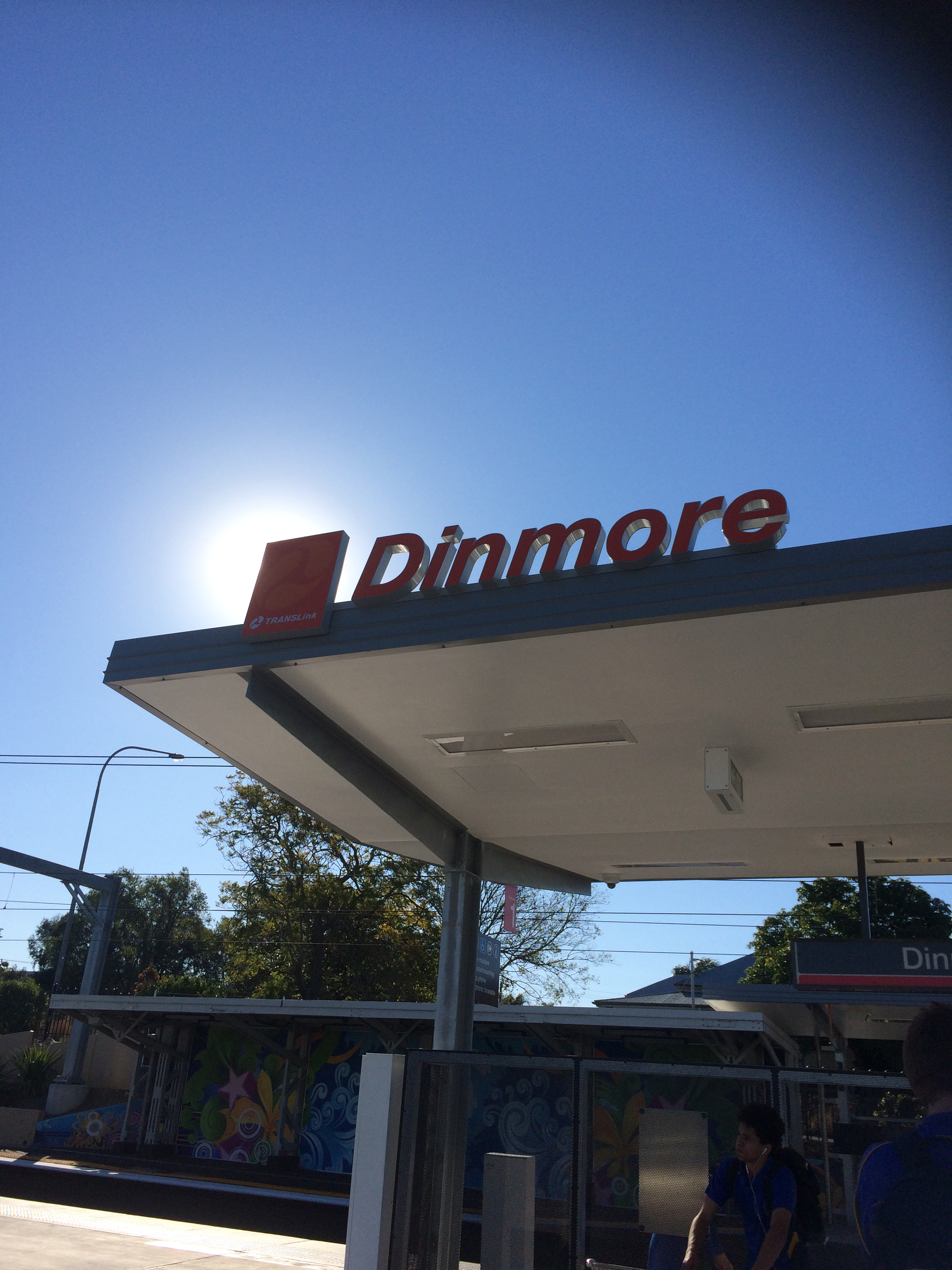 Front view station, platform 1